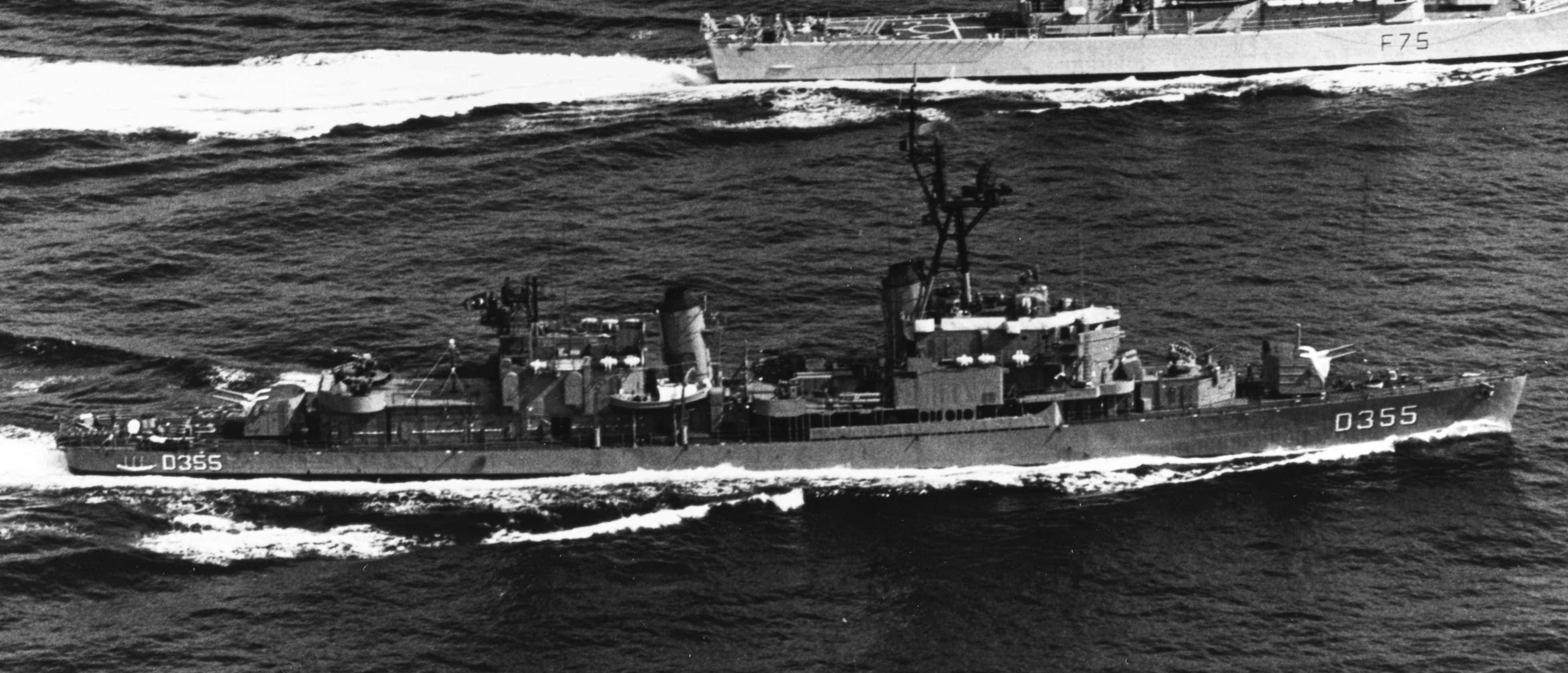 Turkish destroyer TCG Tinaztepe (D 355), ex-USS Keppler (DD-765), operates in the Mediterranean Sea in 1979.